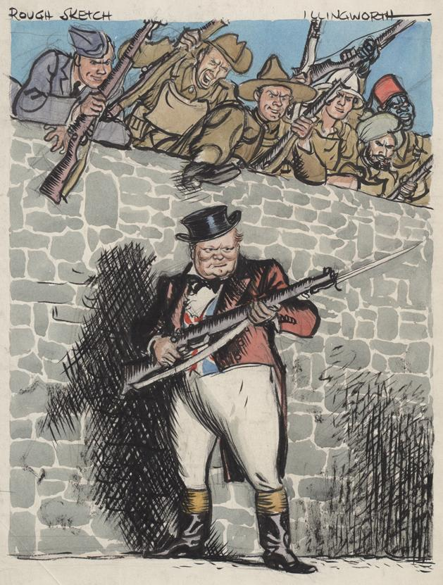 Description: "Back to the wall" by Leslie Illingworth. Churchill (as John Bull) guards a wall also being defended by British Empire forces. Date: 1940 Our Catalogue Reference: INF 3/1325 This image is from the collections of The National Archives. Feel free to share it within the spirit of the Commons. For high quality reproductions of any item from our collection please contact our image library.